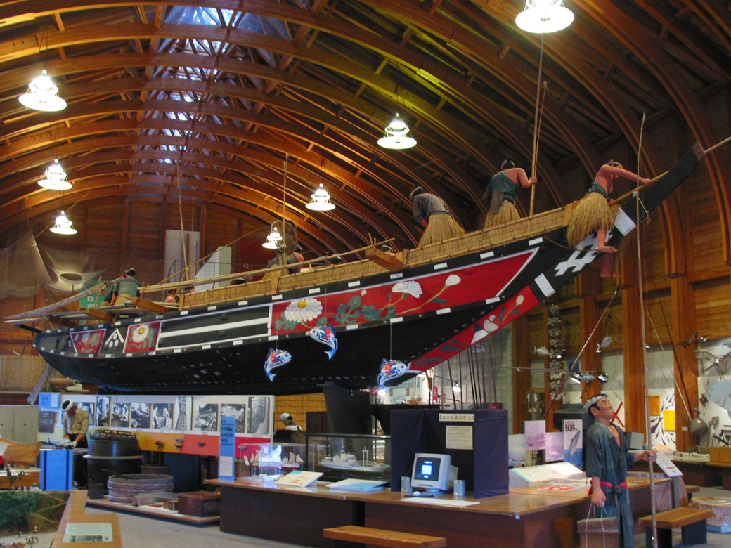 Inside of the exhibition house B, in the Toba Sea-Folk Museum 三重県鳥羽市にある海の博物館、展示棟B内部